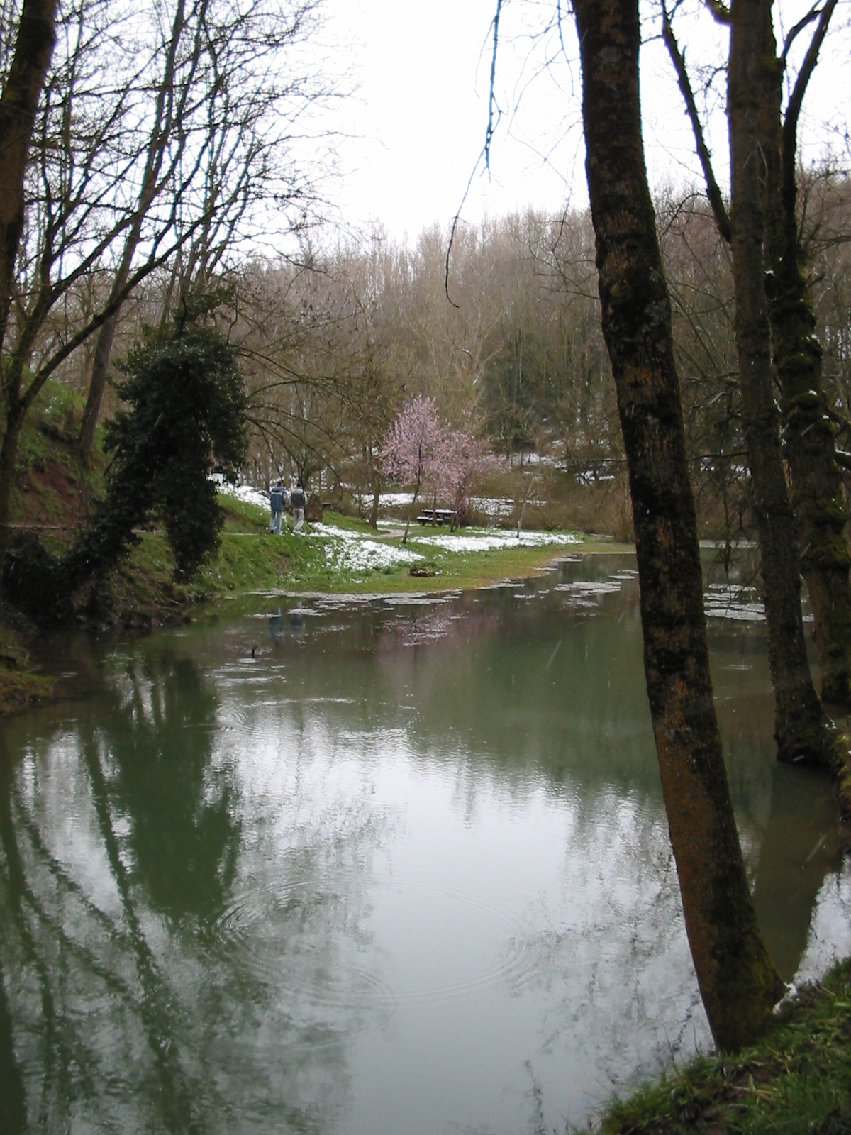 Fontibre, Cantabria (Spain). Traditionally considered as the place where River Ebro is born.